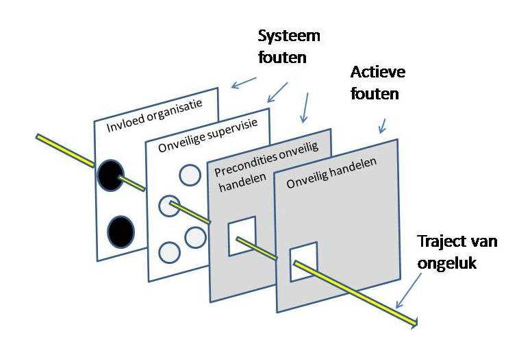 Swiss Cheese model